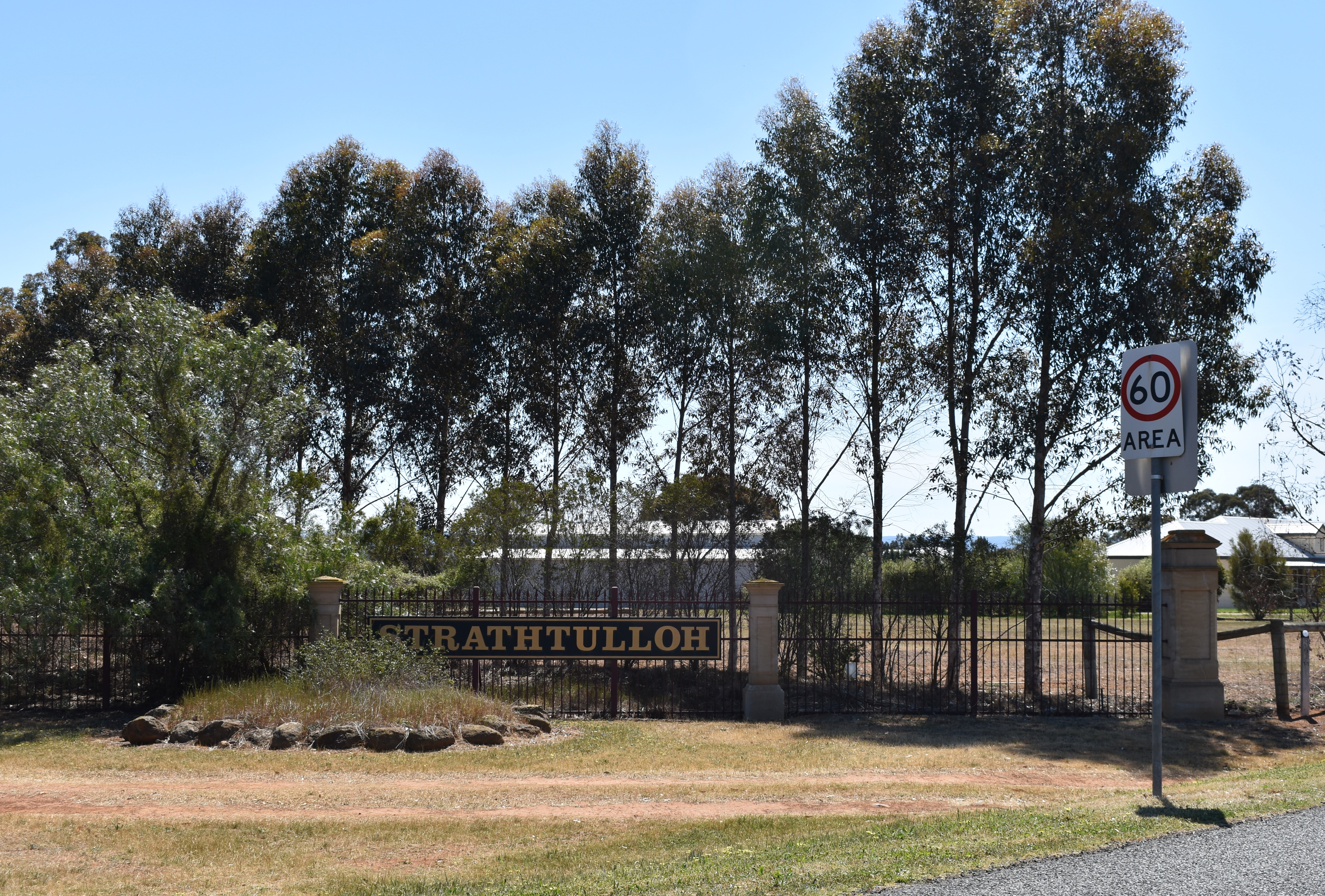 A sign marking the entrance to the Strathtulloh large lot subdivision at Strathtulloh, Victoria